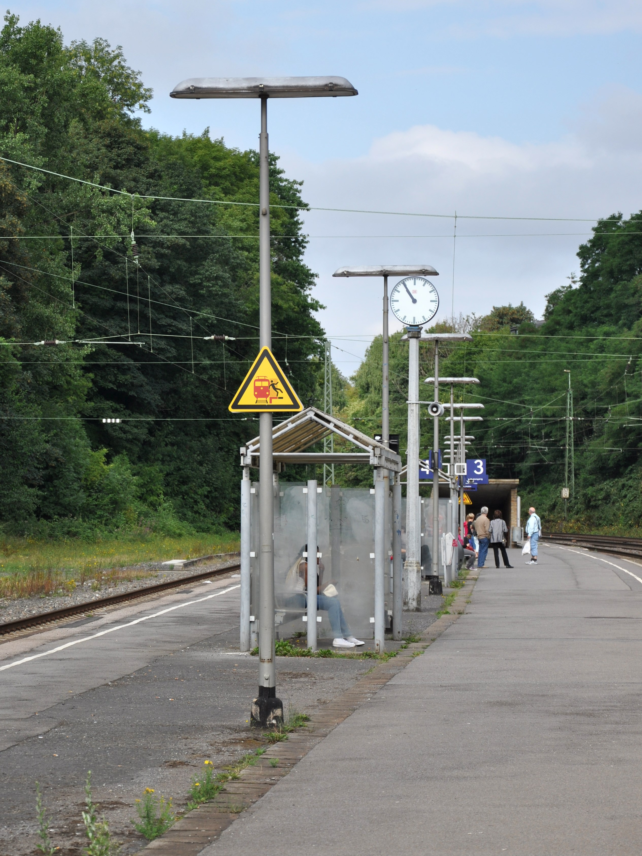 Track 3/4 of Eschweiler Hauptbahnhof.